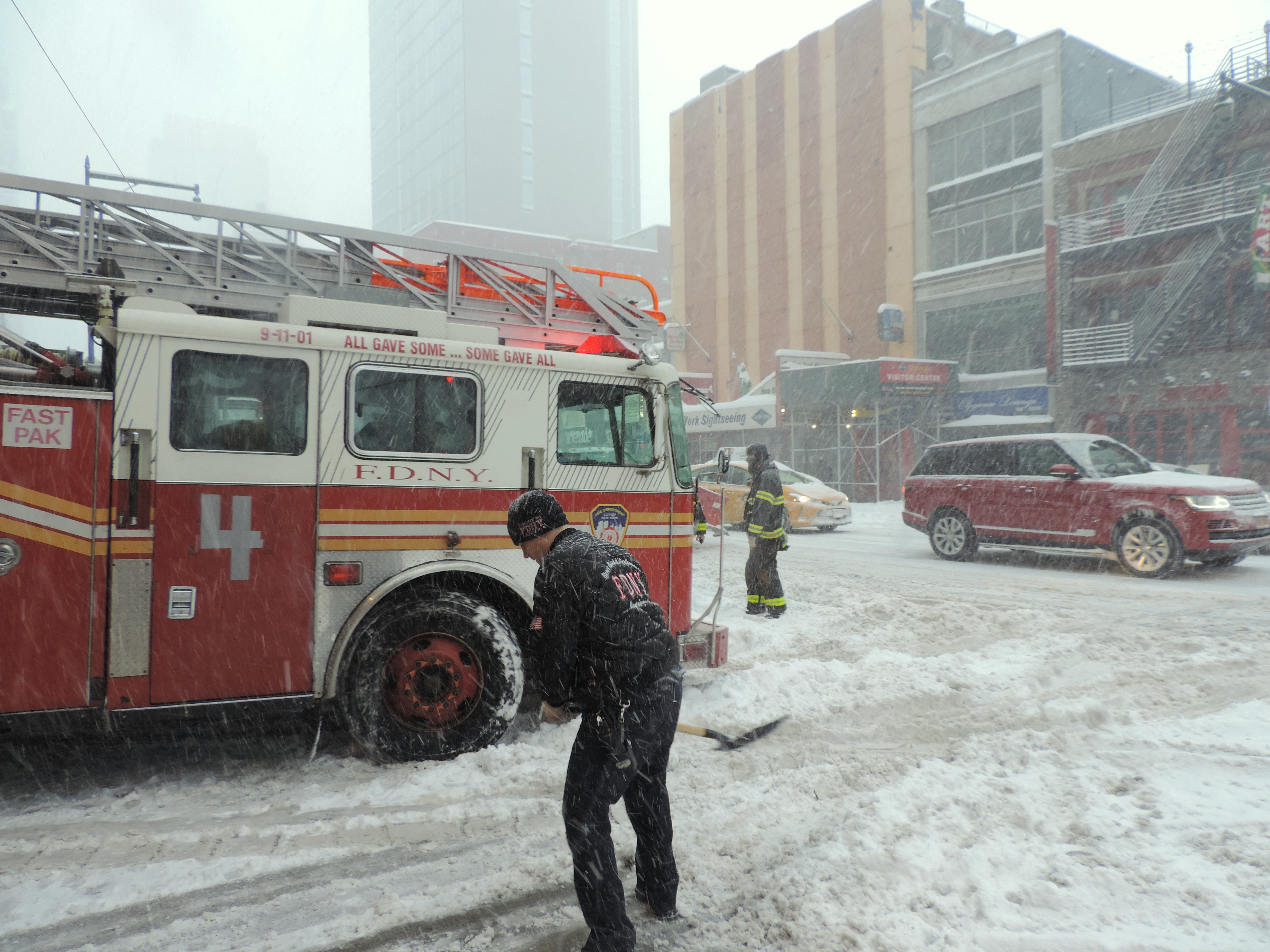 Looking west as Engine 4 backs in from 8th Ave after a midday run during Jan 2016 snowstorm.